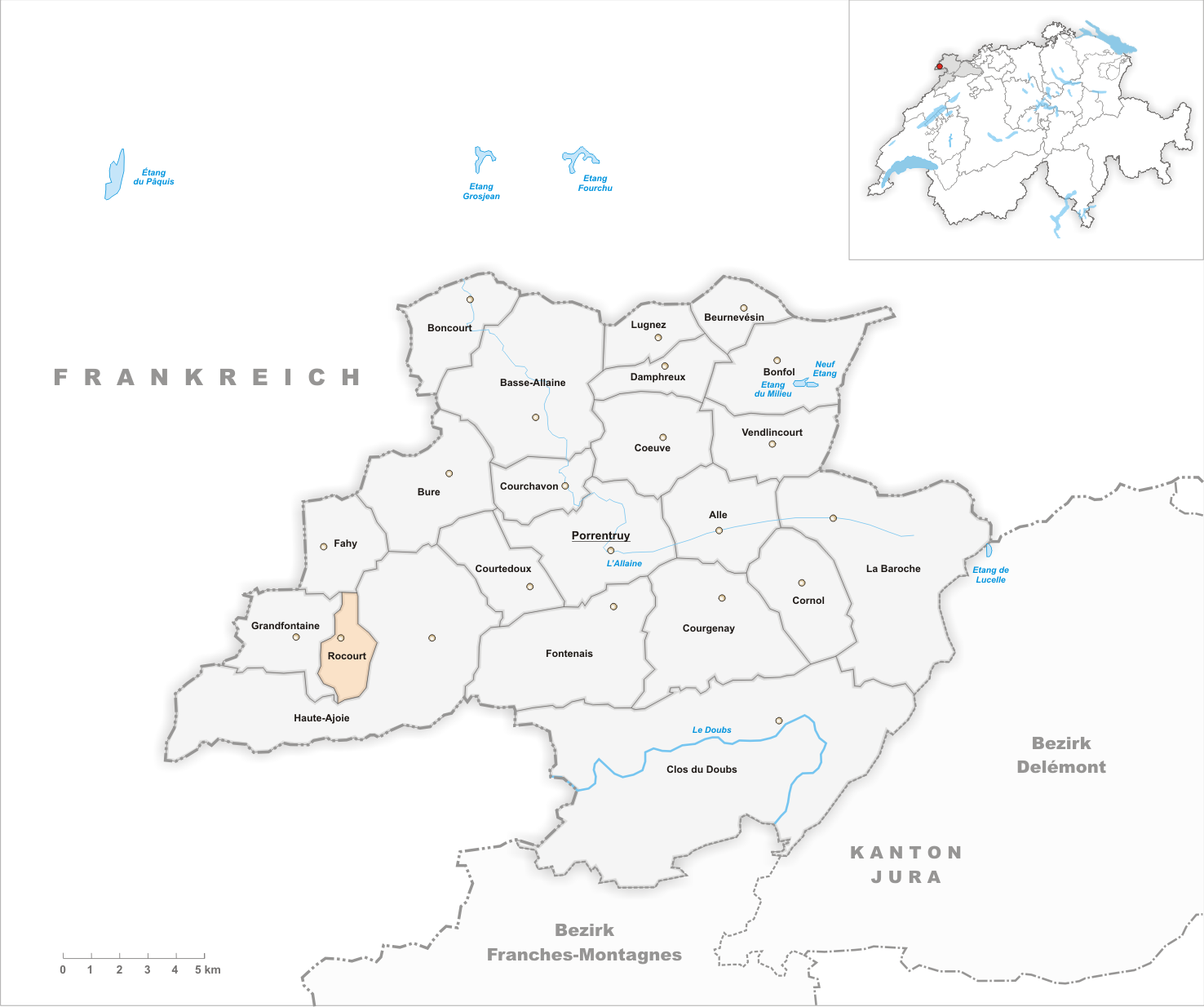 Municipality Rocourt